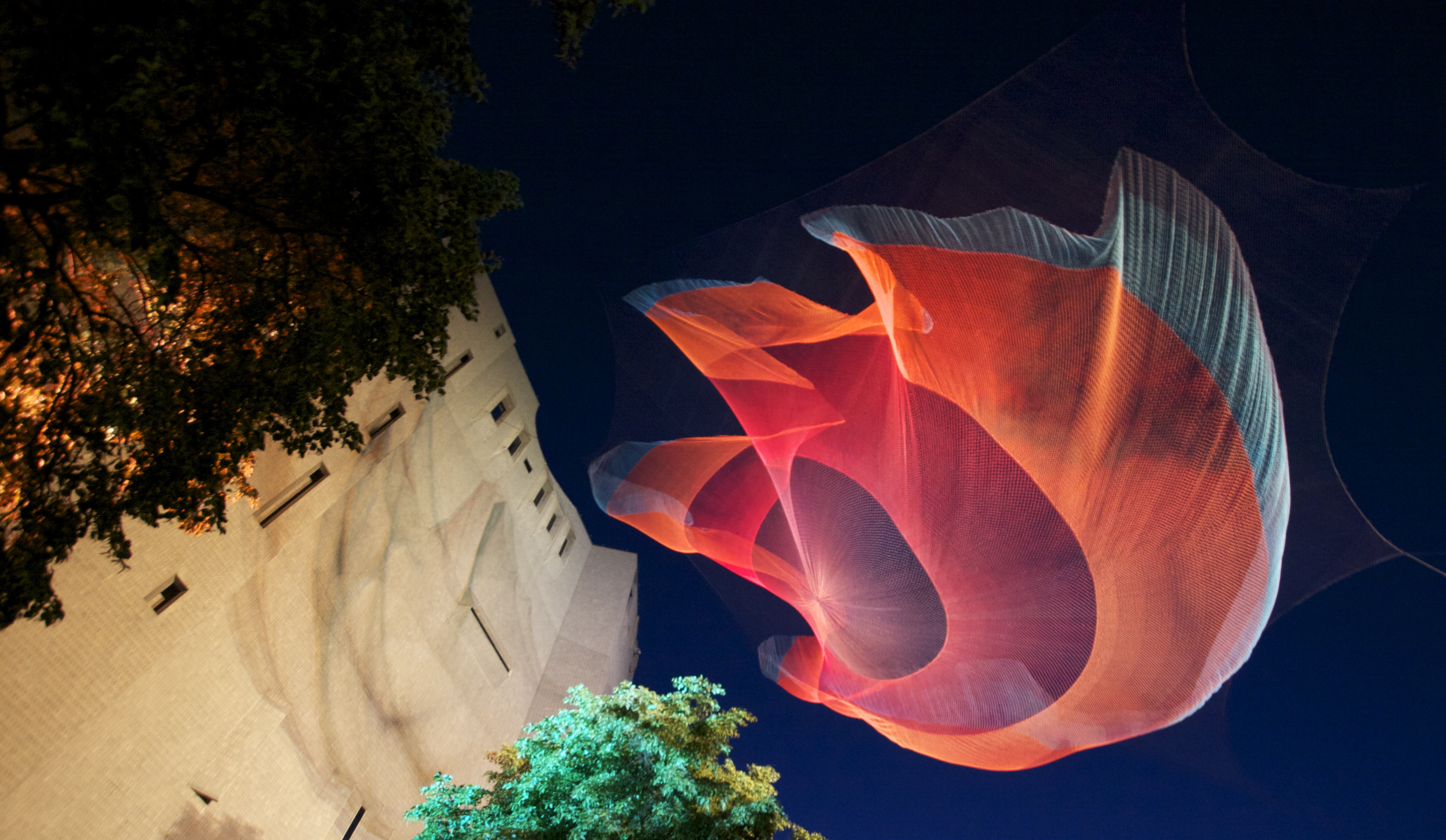 1.26, Janet Echelman’s monumental installation to commemorate the first Biennial of the Americas, engages with issues of temporality and interconnectedness surrounding the 1.26-micro- second shortening of the day that resulted from the February 2010 Chile earthquake’s redistribution of the earth’s mass. A large netted aerial sculpture – inspired by a National Oceanic and Atmospheric Administration (NOAA) simulation of the earthquake’s ensuing tsunami – floats high above the traffic of downtown Denver, suspended between Civic Center Park’s Greek Amphitheater and the Denver Art Museum.